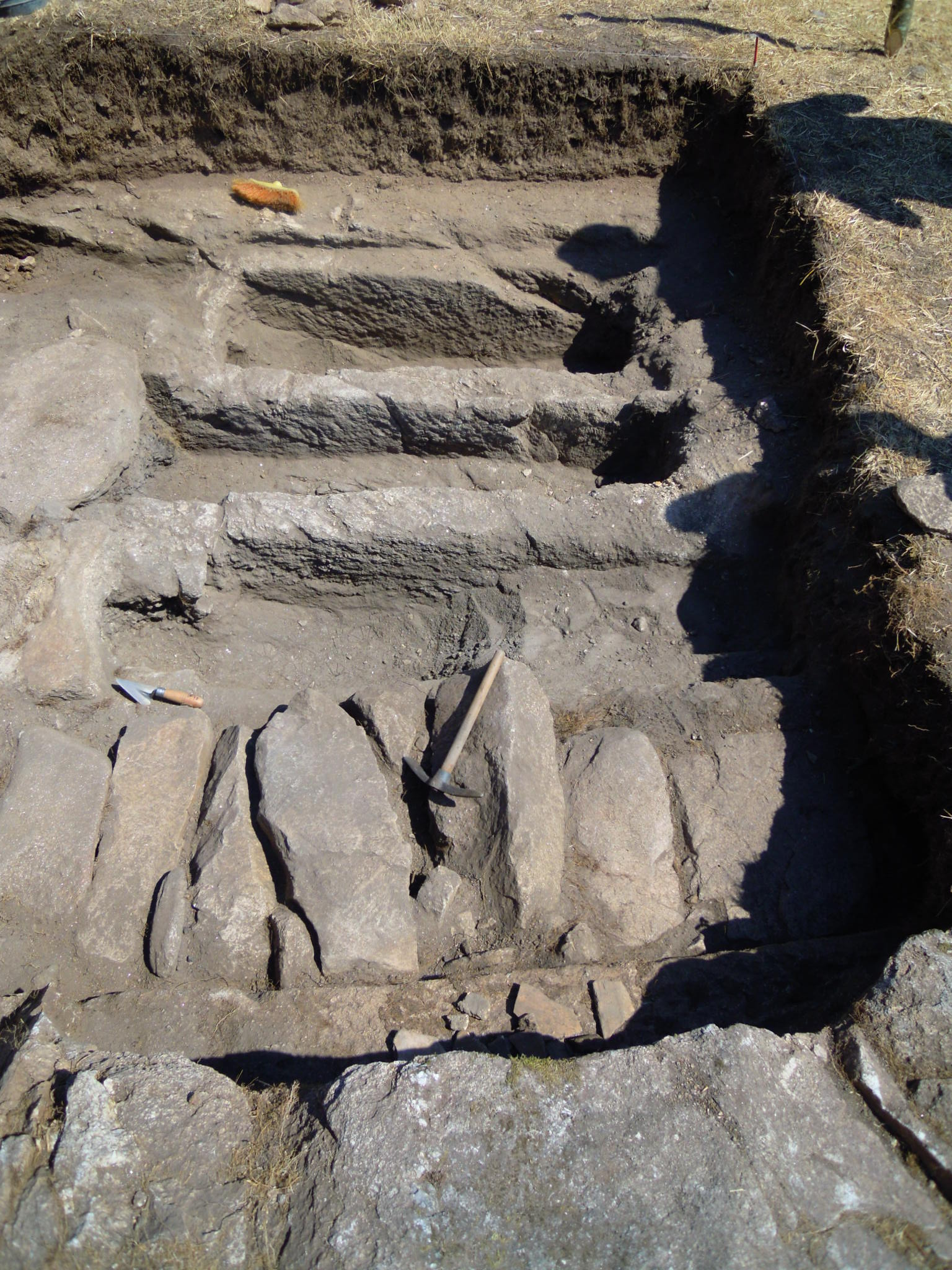 Tombs in the San Victor de Barxacova necropolis (Parada de Sil, Galicia, Spain) in excavation process.